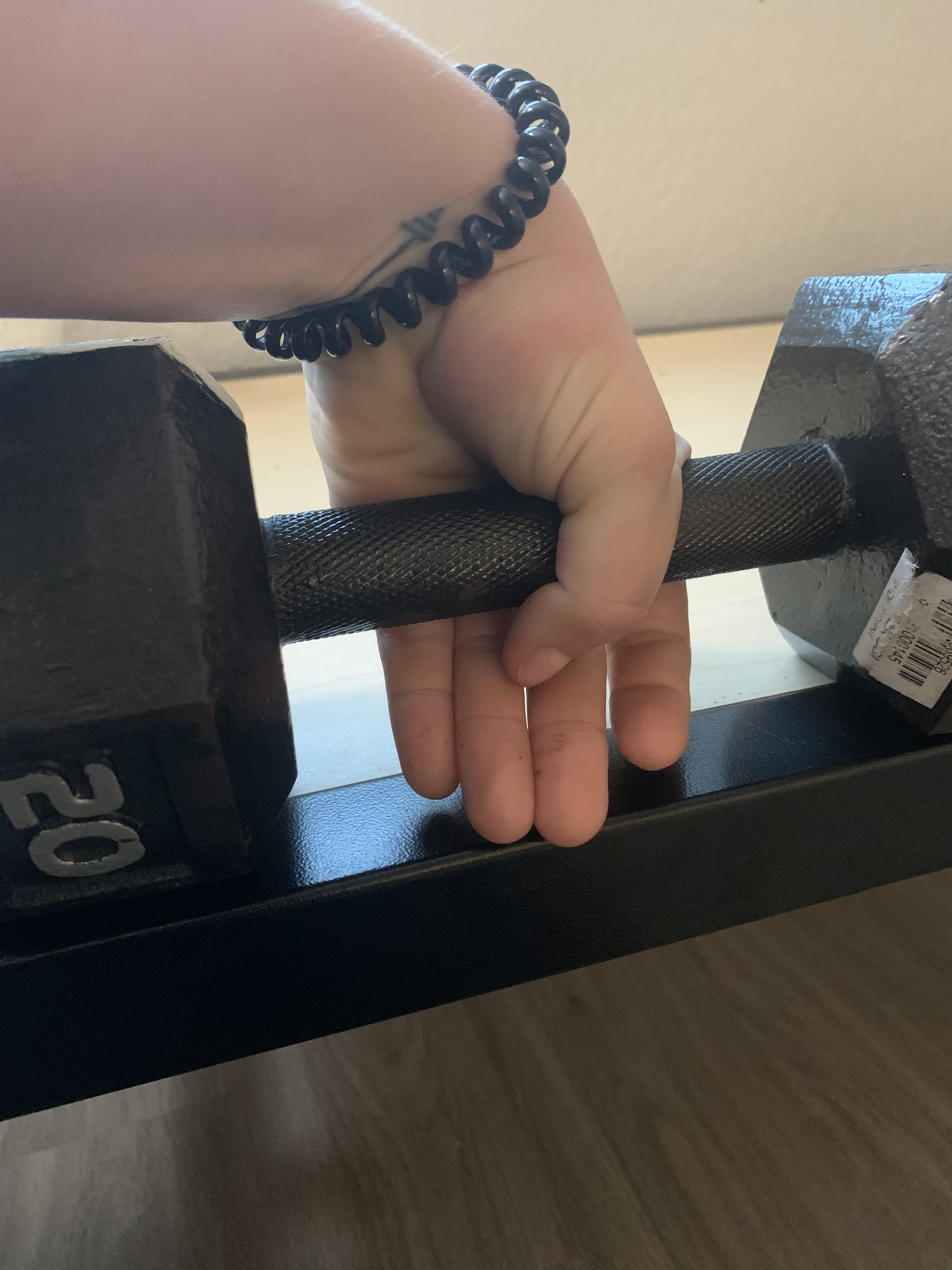 You will then wrap your thumb around the barbell